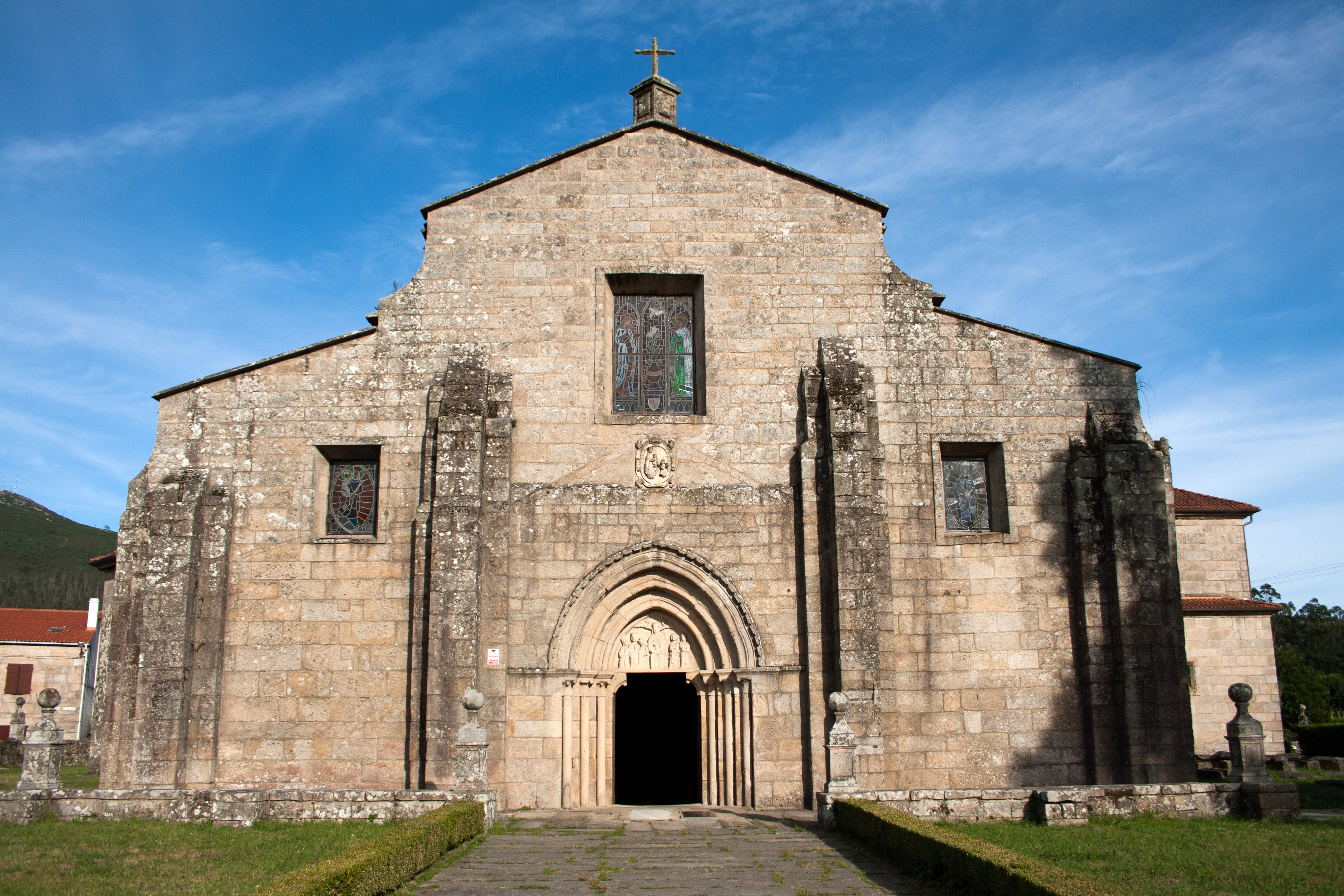 Facade of Saint Mary Church in Iria Flavia, Padrón, Galicia, Spain.